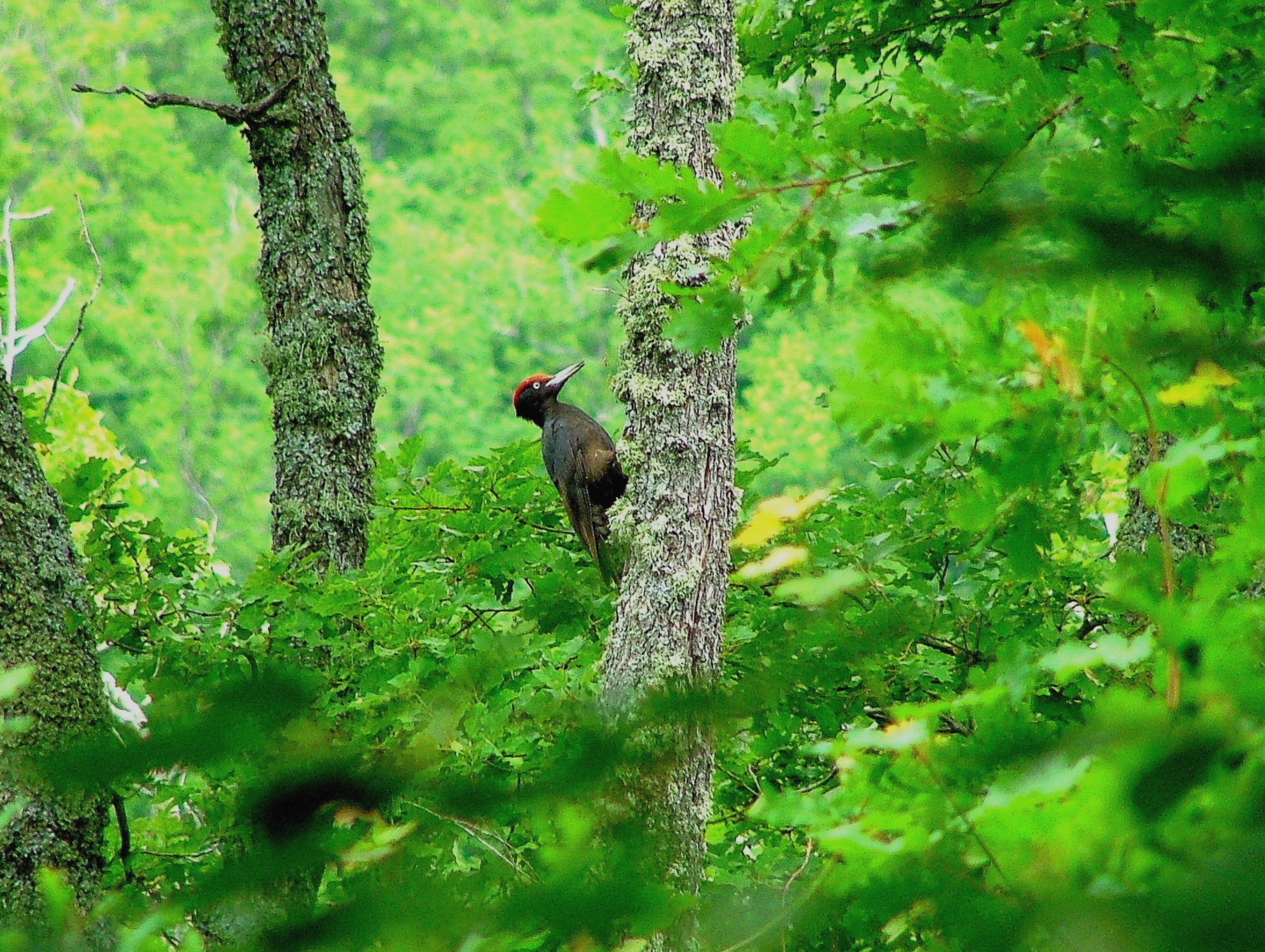 From Dadia - Lefkimi fores, Evros, Greece